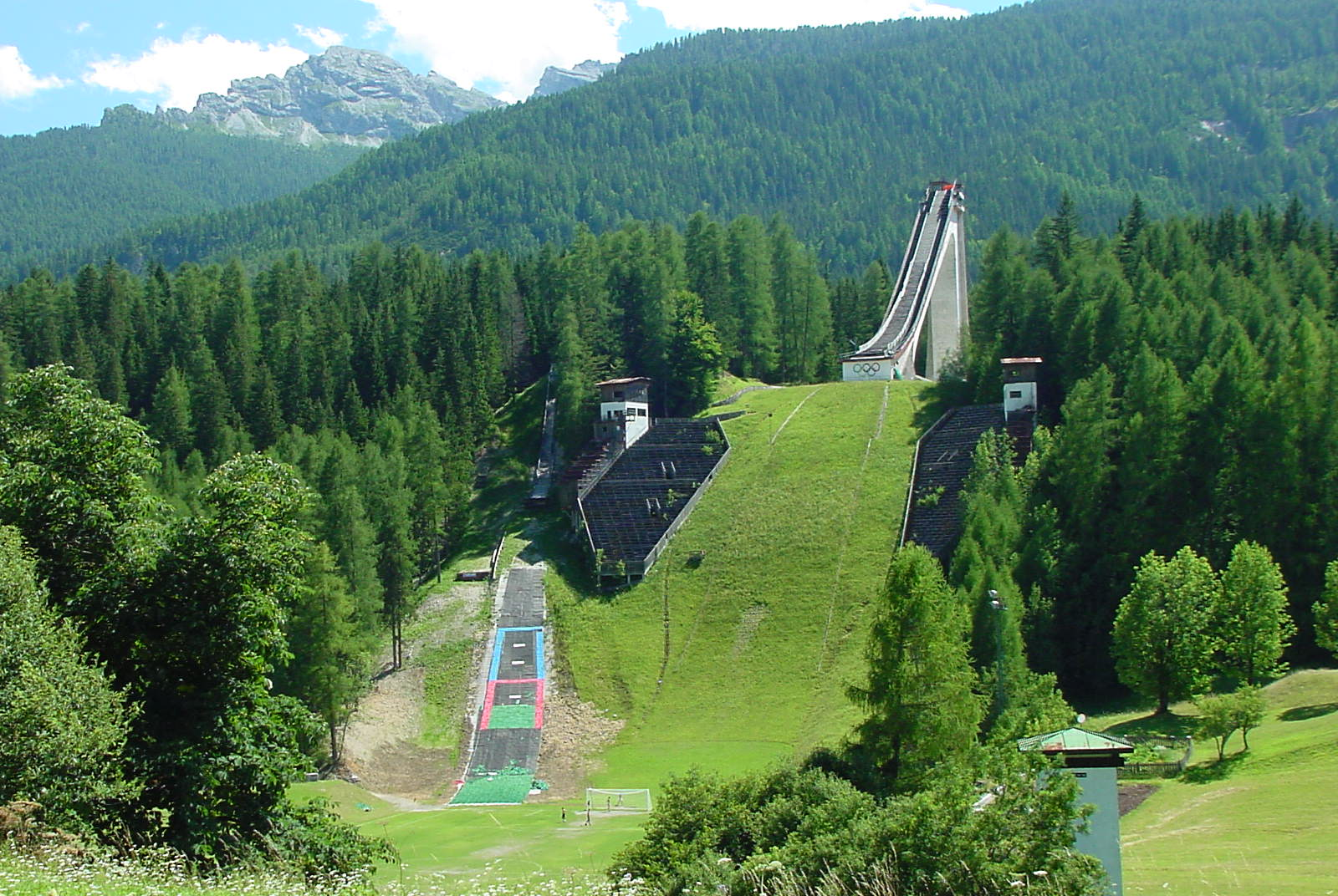 in Cortina d'Ampezzo (Trampolino Olimpico Italia). Site of the Nordic Ski Jumping competitions during the 1956 Winter Olympics (NH K90 - NC K90/15).